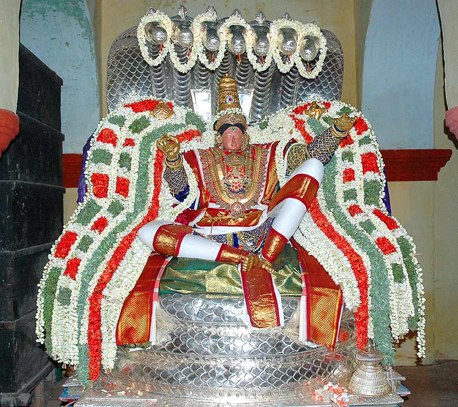 Vaduvur Kothandaramar - Various dressing/alangaram